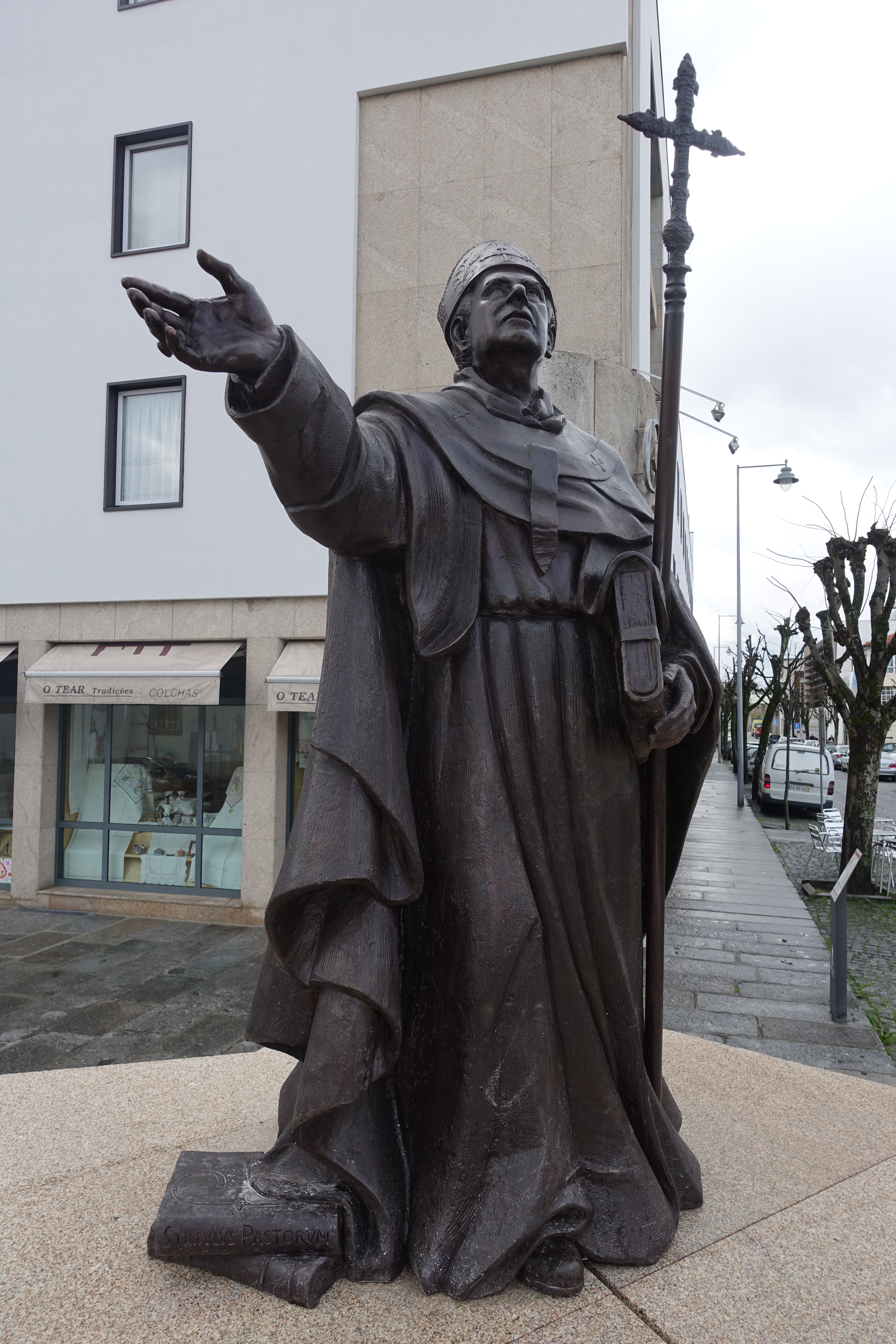 Bartholomew of Braga statue in Braga Portugal.